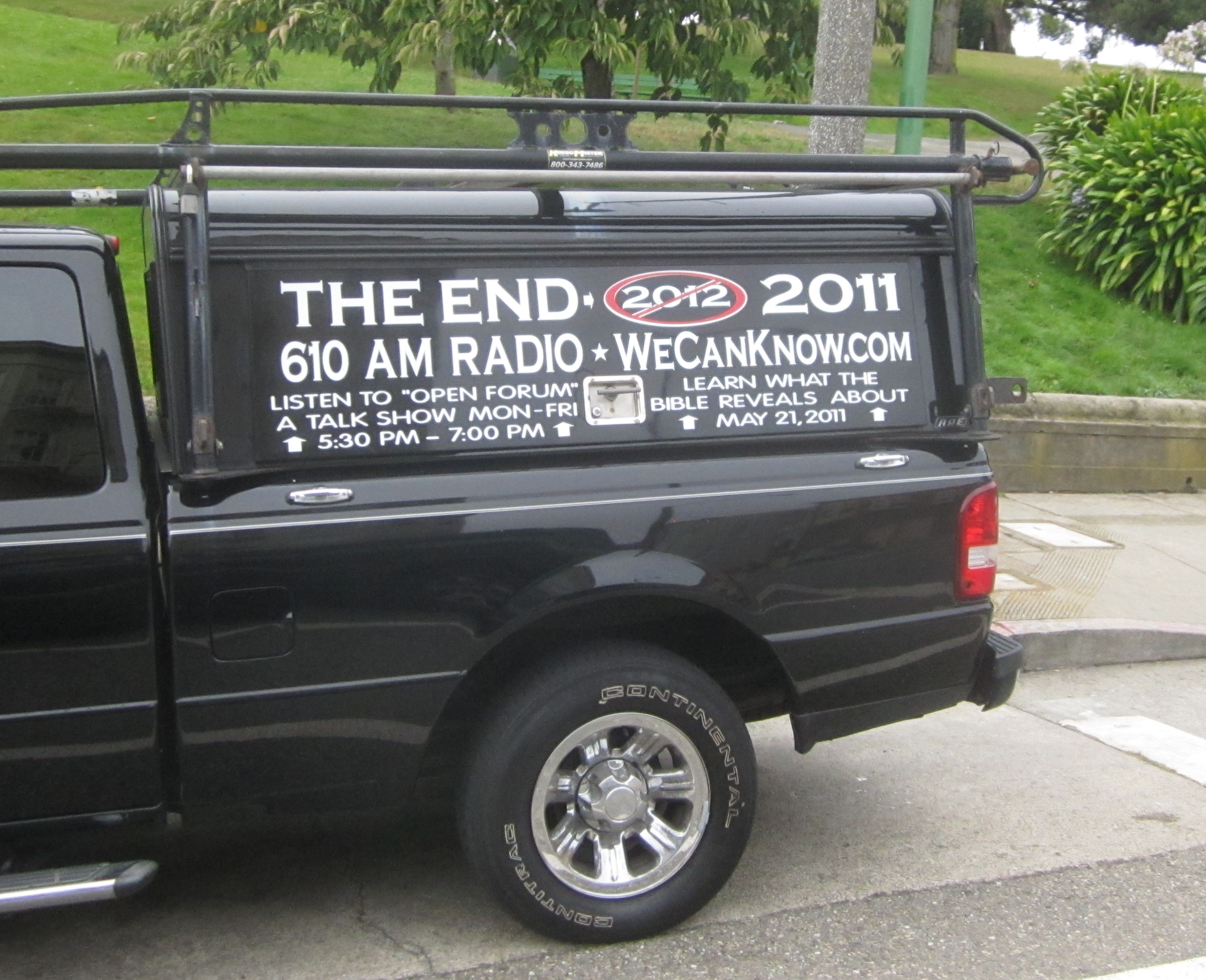 Pickup truck with wikipedia:2011 end times prediction message. San Francisco, California.